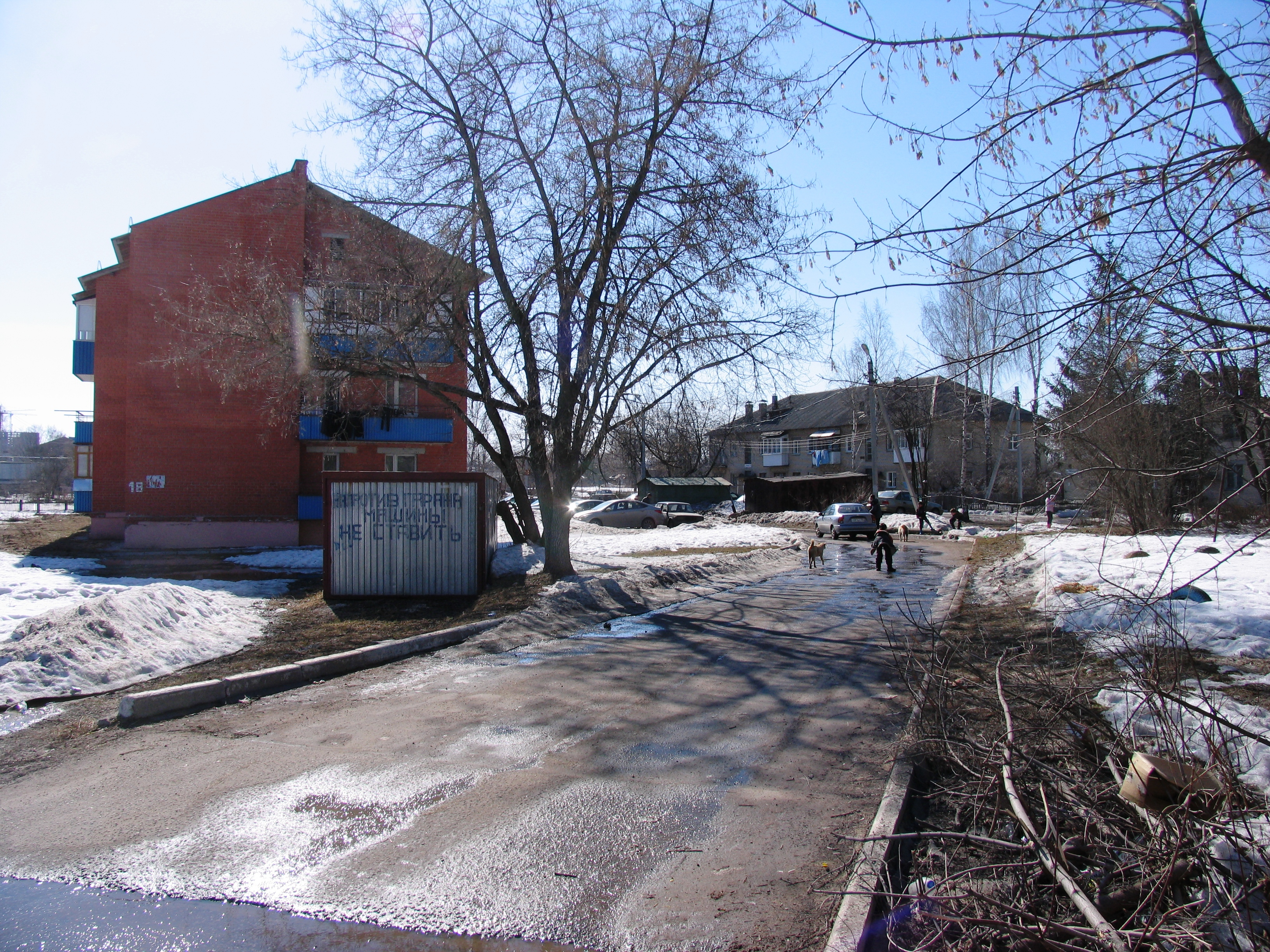 Amerevo — microdistrict of the city of Shchelkovo, Moscow Region, Building 18, Work Street.